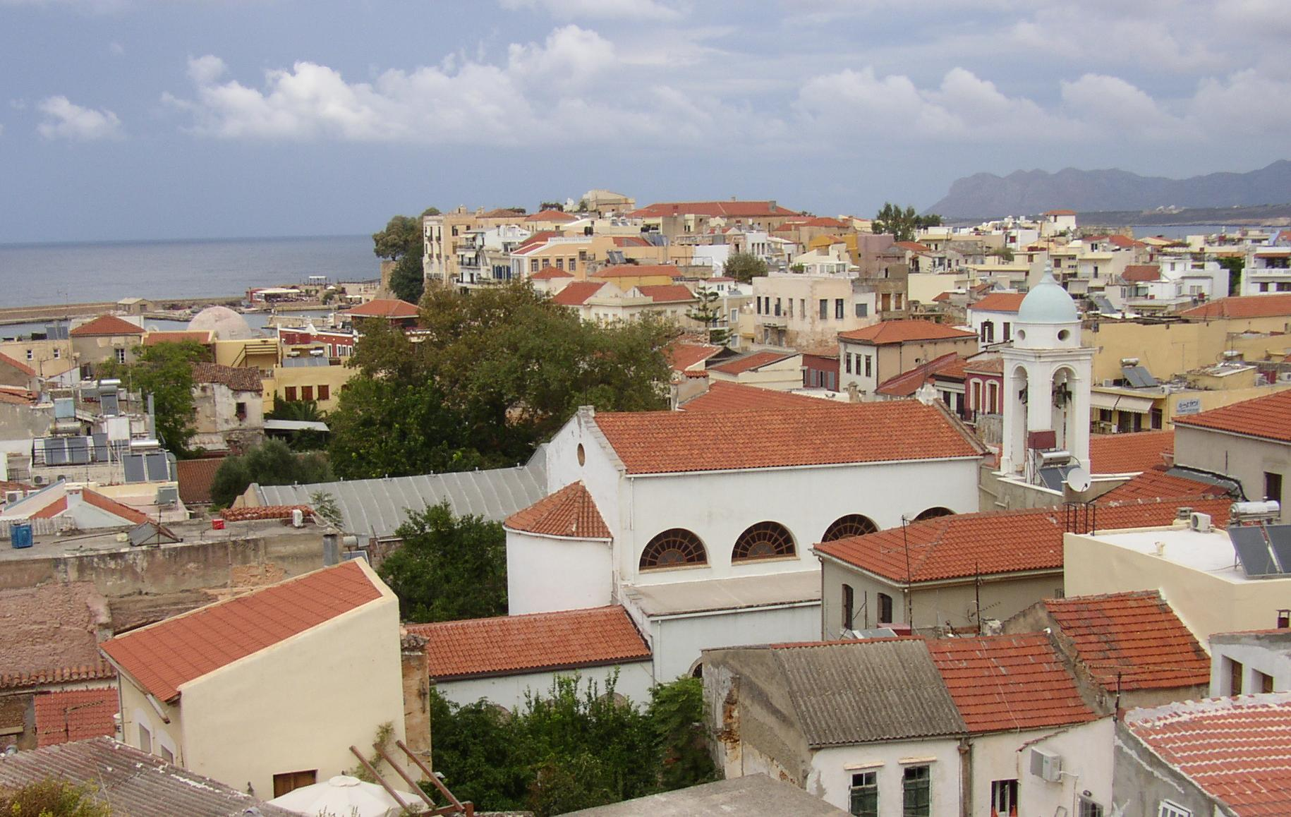 Kasteli in Chania, Greece